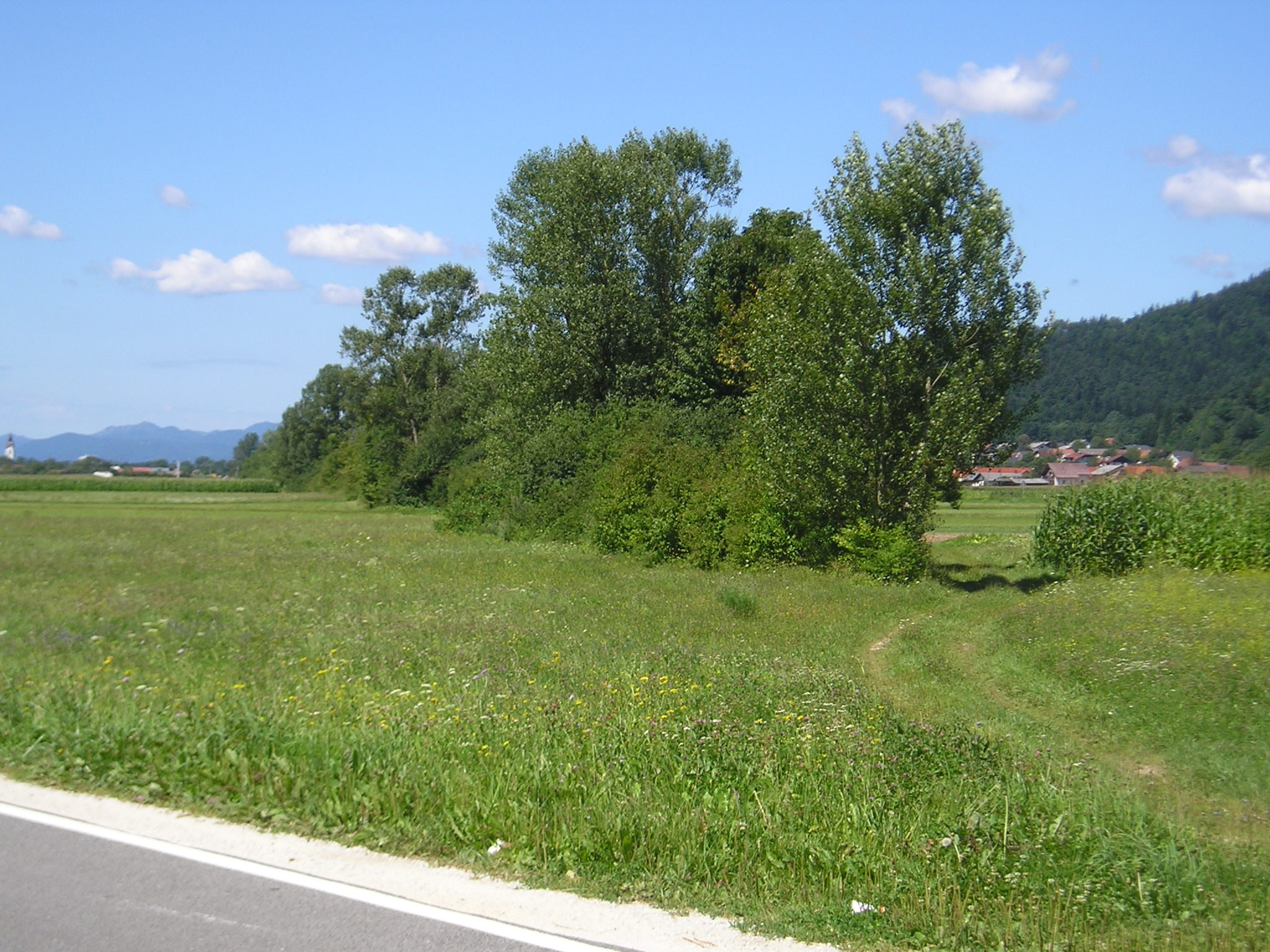 Dolsko - grown over the route of the former Vižmarje - Črnuče - Laze avoiding railway (1942 - 1943)